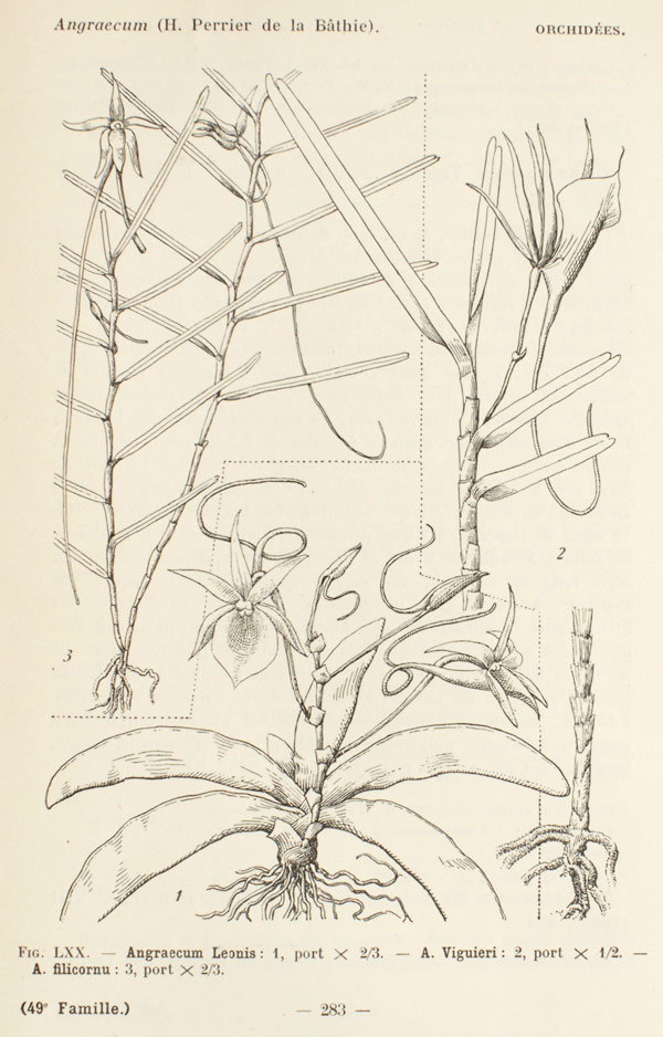 Ангрекум Вигуера